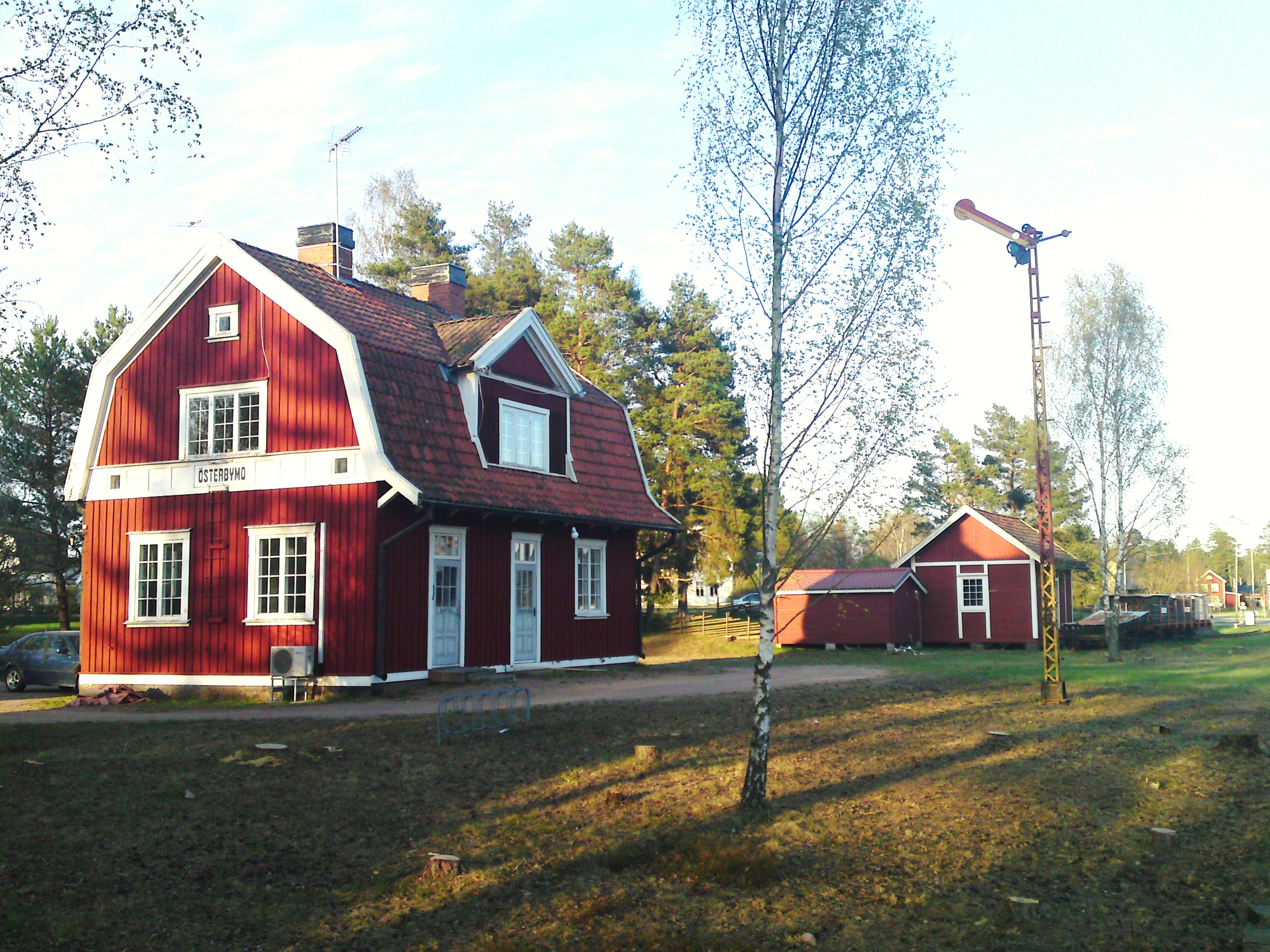 Österbymo station, Östergötland, Sweden. The station is no longer used and the railway to Österbymo has been demolished.